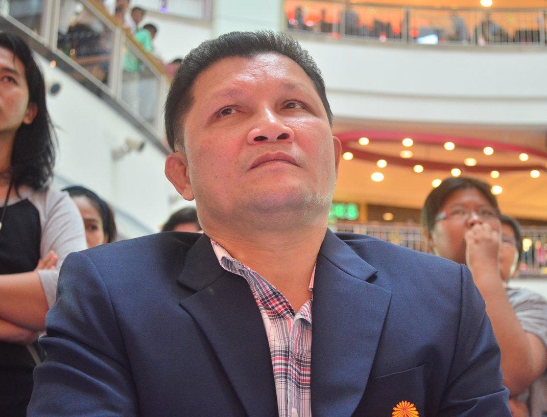 Khaosai Galaxy